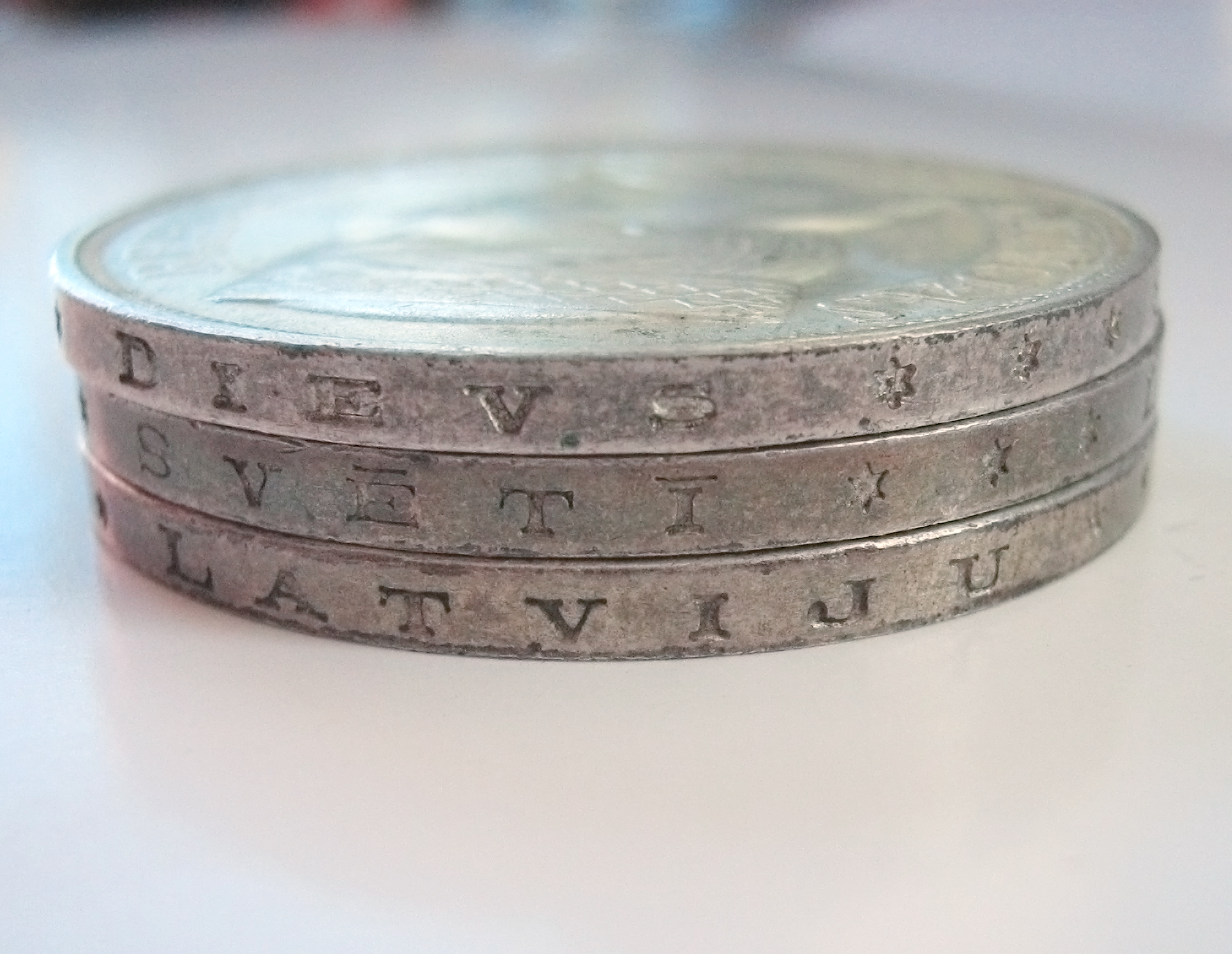 Stack of five lats coins issued in 1931 showing inscription on the edge - "God bless Latvia" in Latvian, words seperated by three six point stars (That is - ***Dievs***Svētī***Latviju)